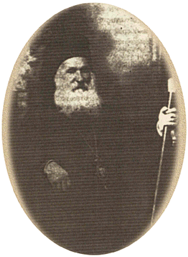 Eulogios Kourilas (Bishop of Korca (Korytsa)